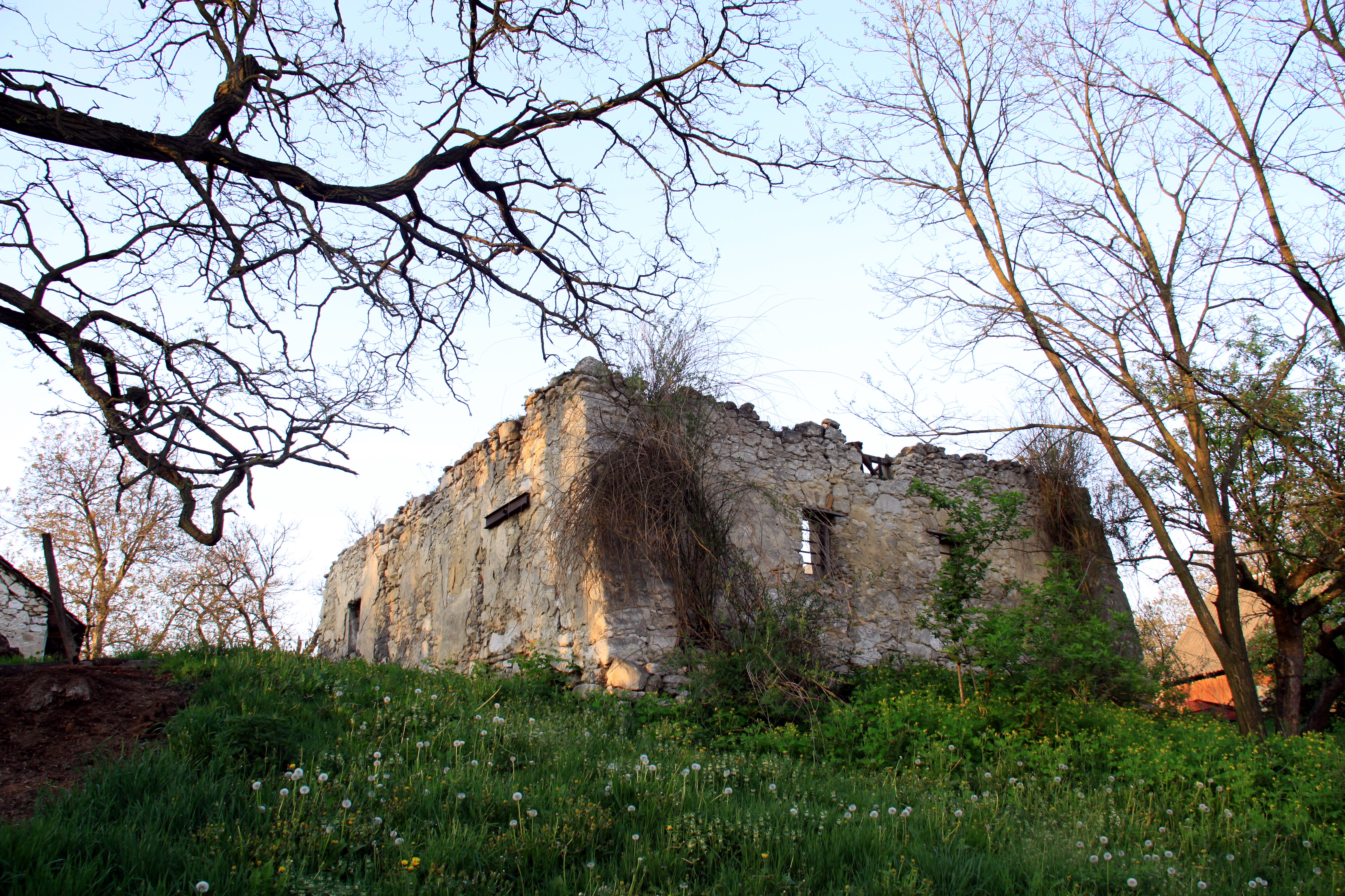 Pęczelice - walls of the arian house (16th century).